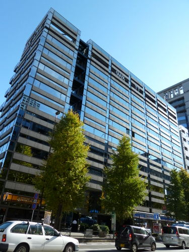 SVAX TT